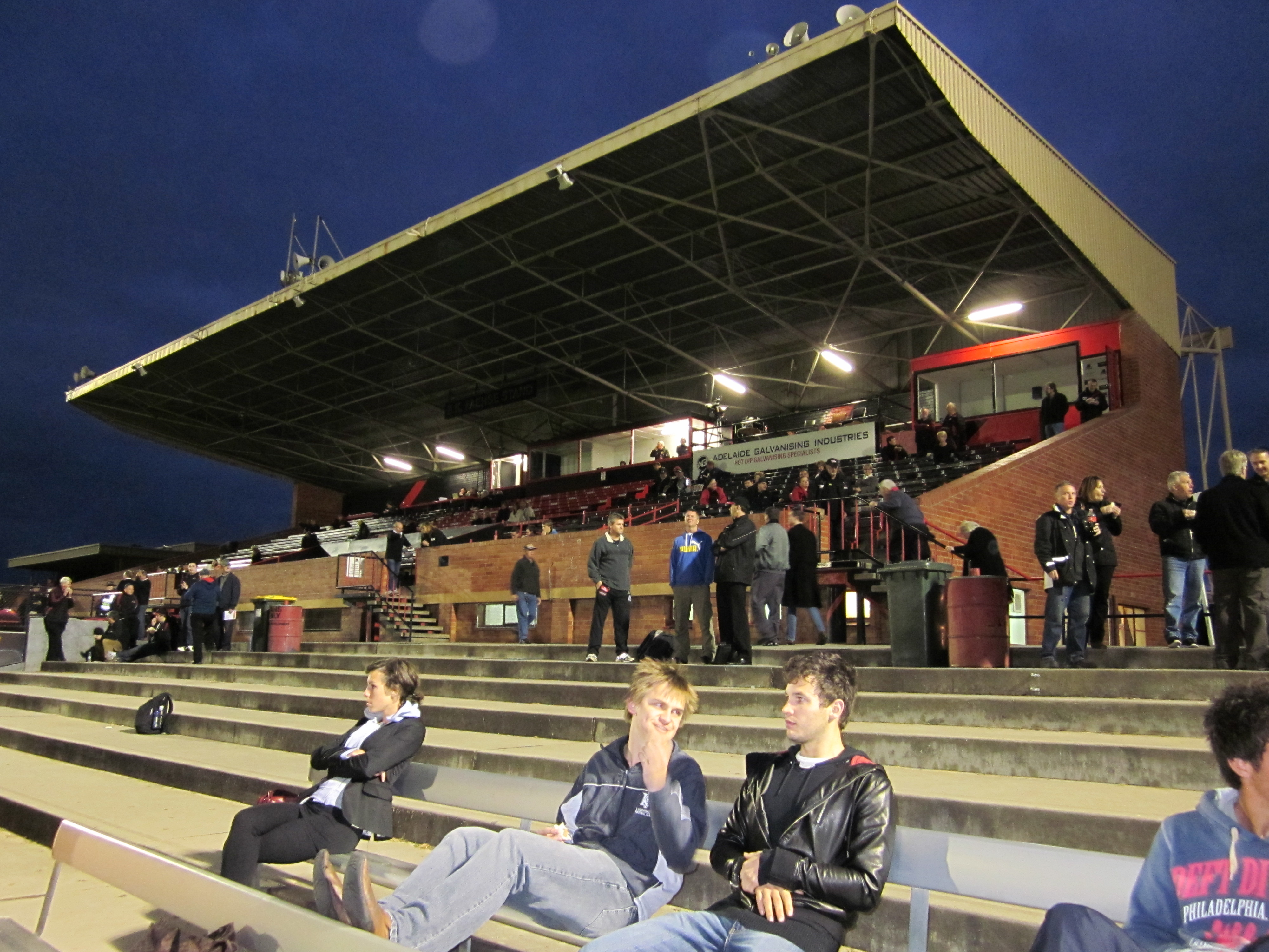 The B. K. Faehse Stand at Richmond Oval on 26 August 2011, West Adelaide vs Glenelg, SANFL Round 21